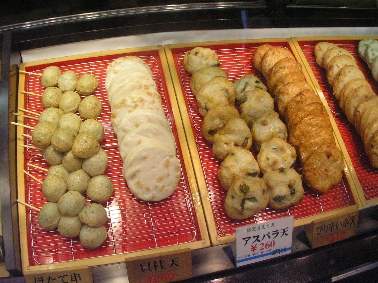 Satsuma age sold at Suwako Service Area on the Chuo Expressway